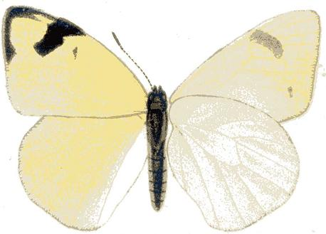 SeitzFaunaAfricanaXIIITaf20 Colotis subfasciatus (Swainson, 1822)